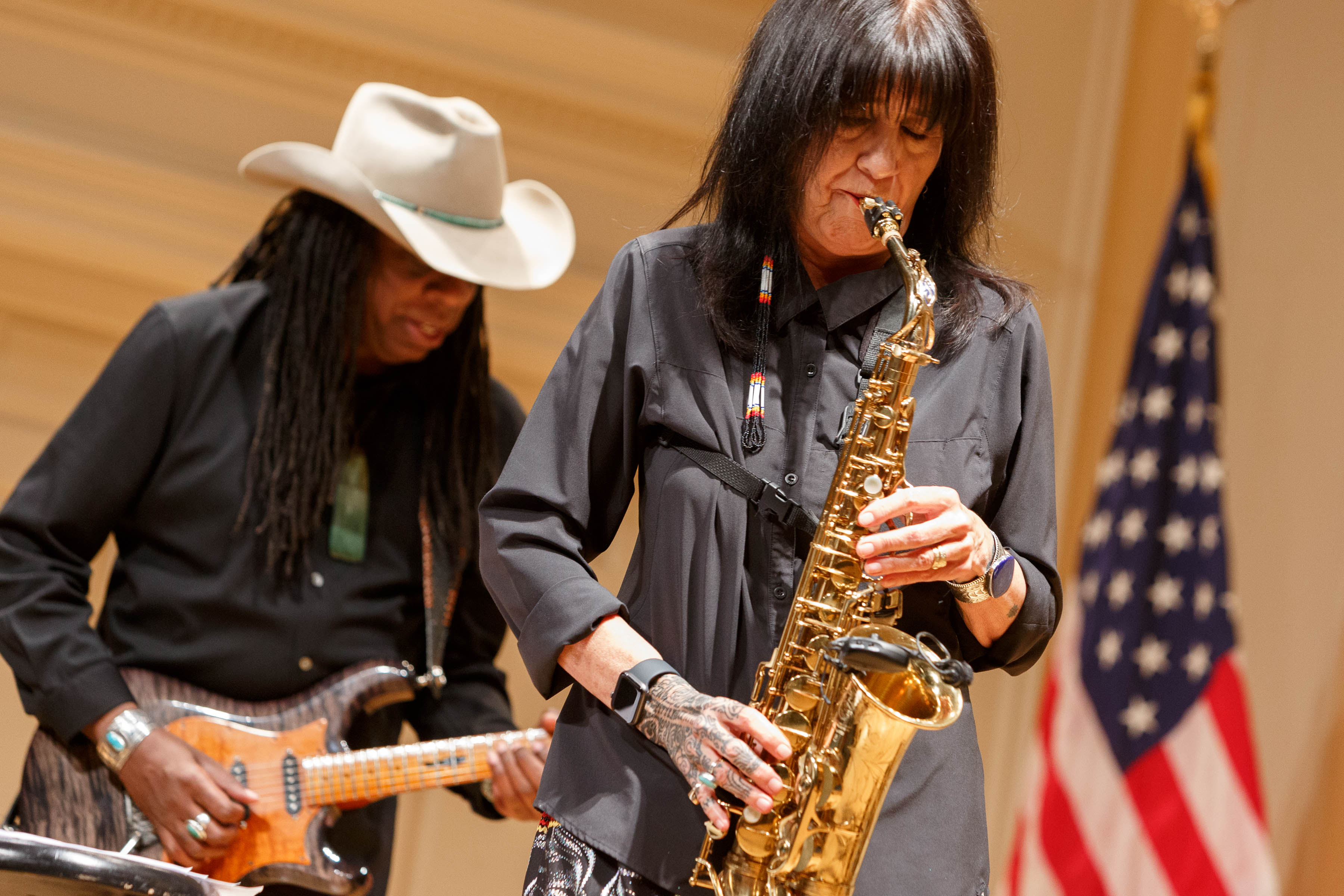 Joy Harjo performs with her band during her opening event as the U.S. Poet Laureate at the Library of Congress, September 19, 2019. Photo by Shawn Miller/Library of Congress. Note: Privacy and publicity rights for individuals depicted may apply.